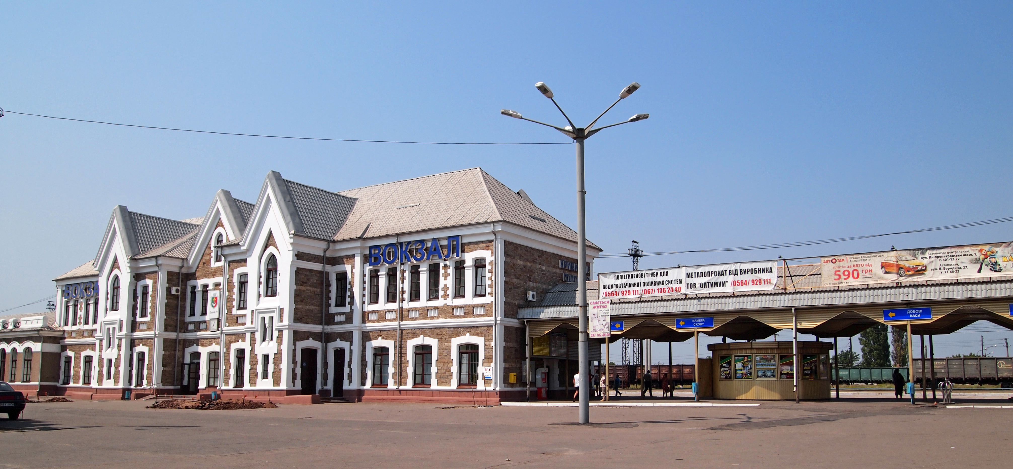 Kryvyi Rih-Holovnyi Railway Station. This photograph was taken with an Olympus E-PL1